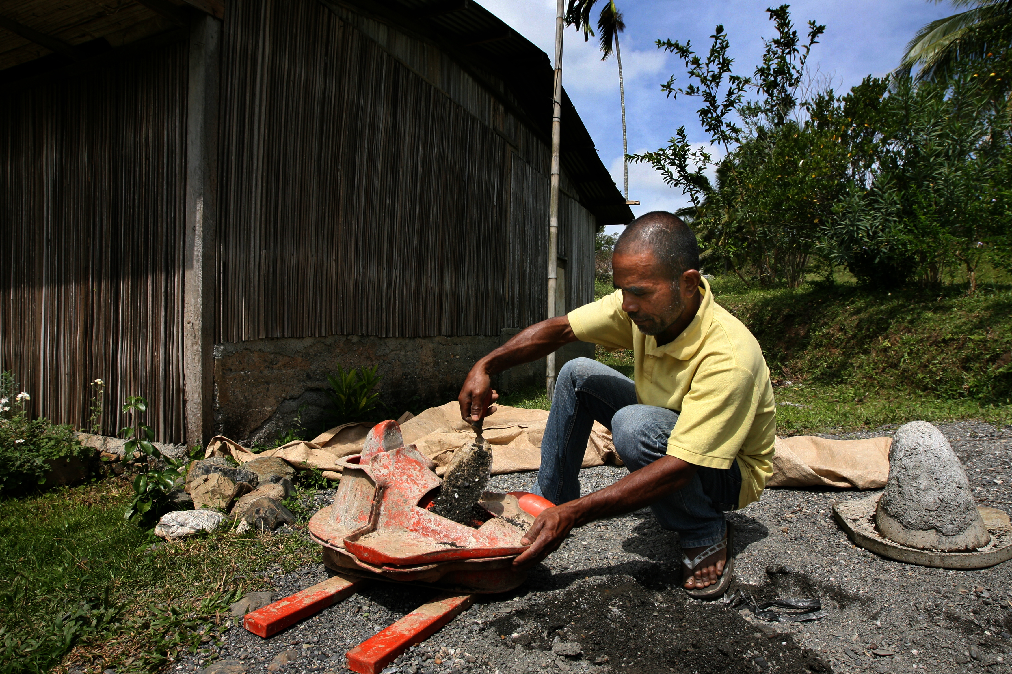 Photograph shows father and local toilet salesman, Antonia dos Santos in his home village of Lisadila. Antonia creats concrete toilets with the use of a mould and sells them at the market place in Maubara and to neighbouring villages. Antonia gives a demonstration of making a toilet with his mould.